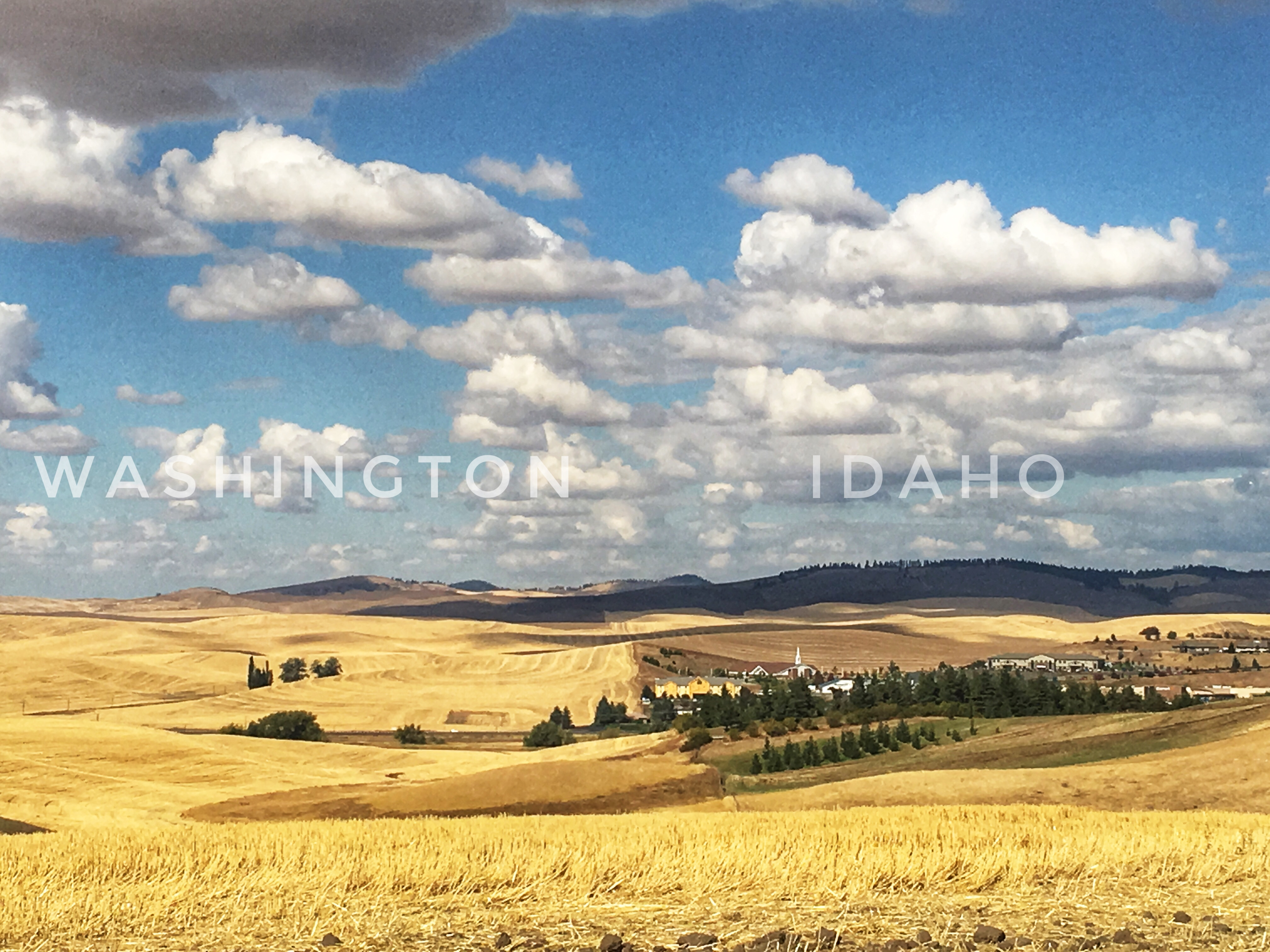 Moscow, Idaho (right) along the state border of Washington.